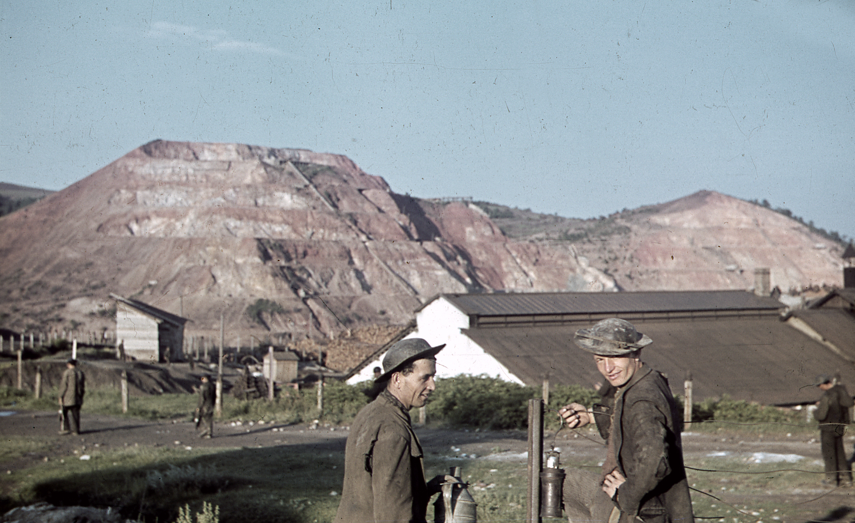 A photo of Tilva Rosh from the 50's